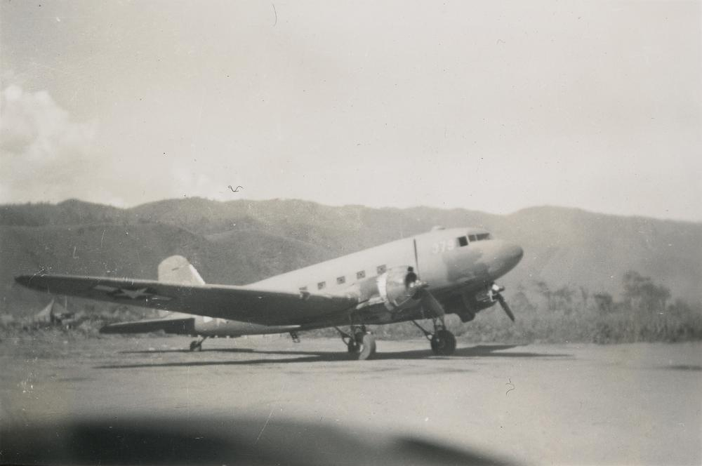 On the runway at Hollandia, formerly Dutch New Guinea, 1944 C-47 aircraft on the runway at Hollandia, base for the U.S. 7th Portable Surgical Hospital.